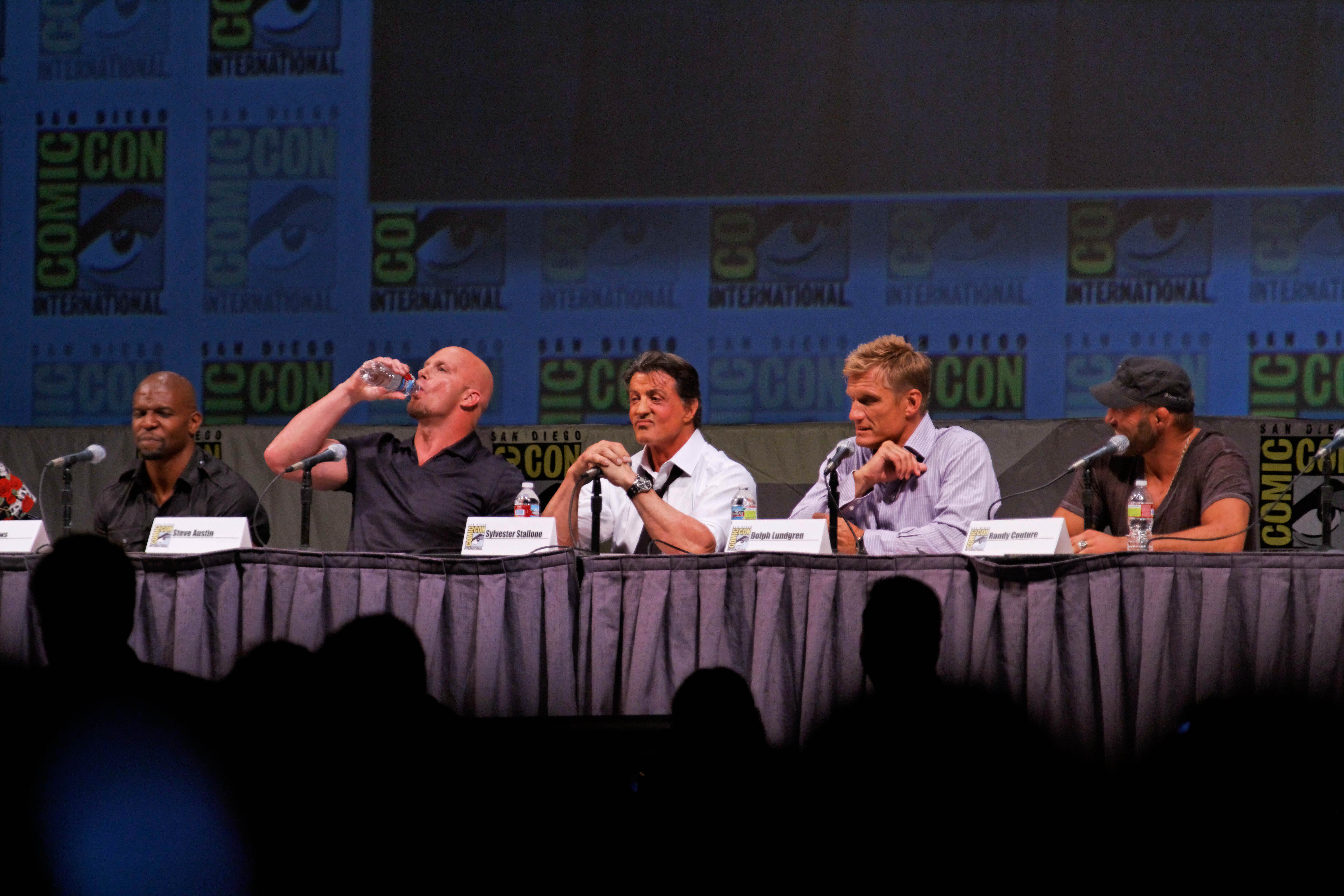 The Expendables panel at the 2010 San Diego Comic-Con International with Terry Crews, Steve Austin, Sylvester Stallone, Dolph Lundgren, and Randy Couture.